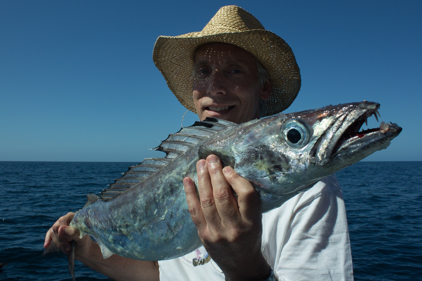 Rexea solandri collected in New Zealand